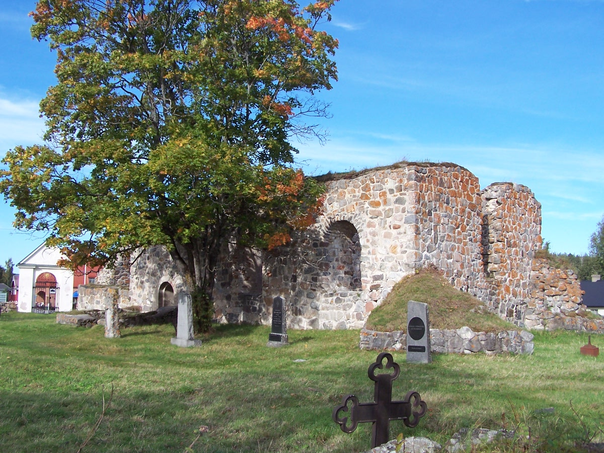 Njurunda church ruin, Sweden